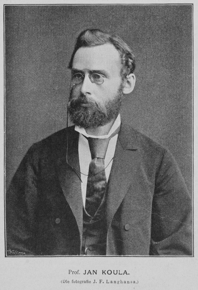 Portrait of Jan Koula (1855 - 1919), Czech architect